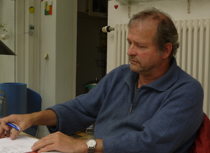 peter schruth at work 2013